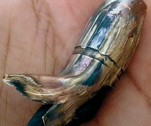 Strange bullet was in one innocent civilian stomach shoot in one of the Muslim brotherhood Melitias armed marches in thalathiny street while they came to attack El Arab police station